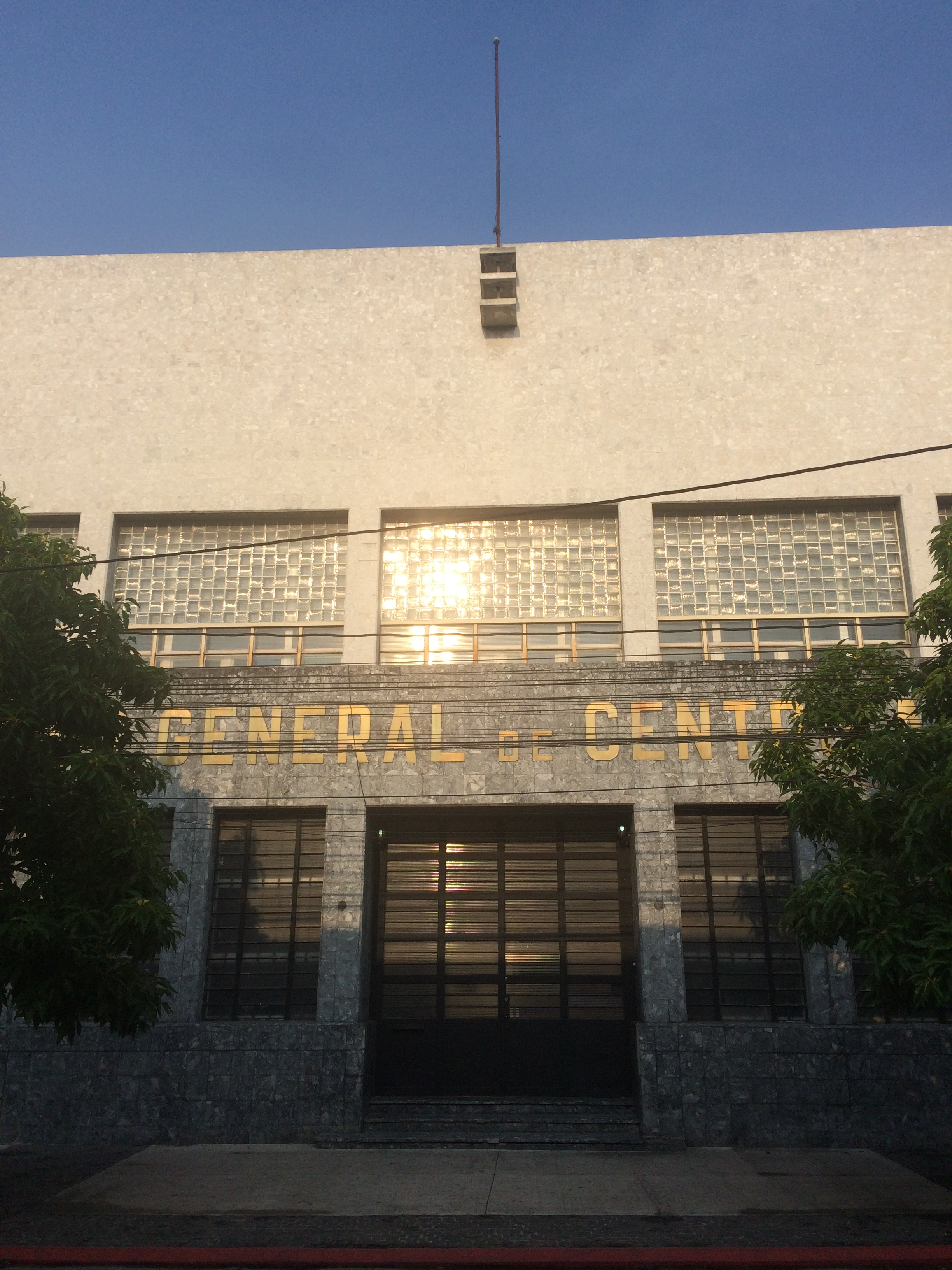 Front view of the facade of the General Archive of Central America building